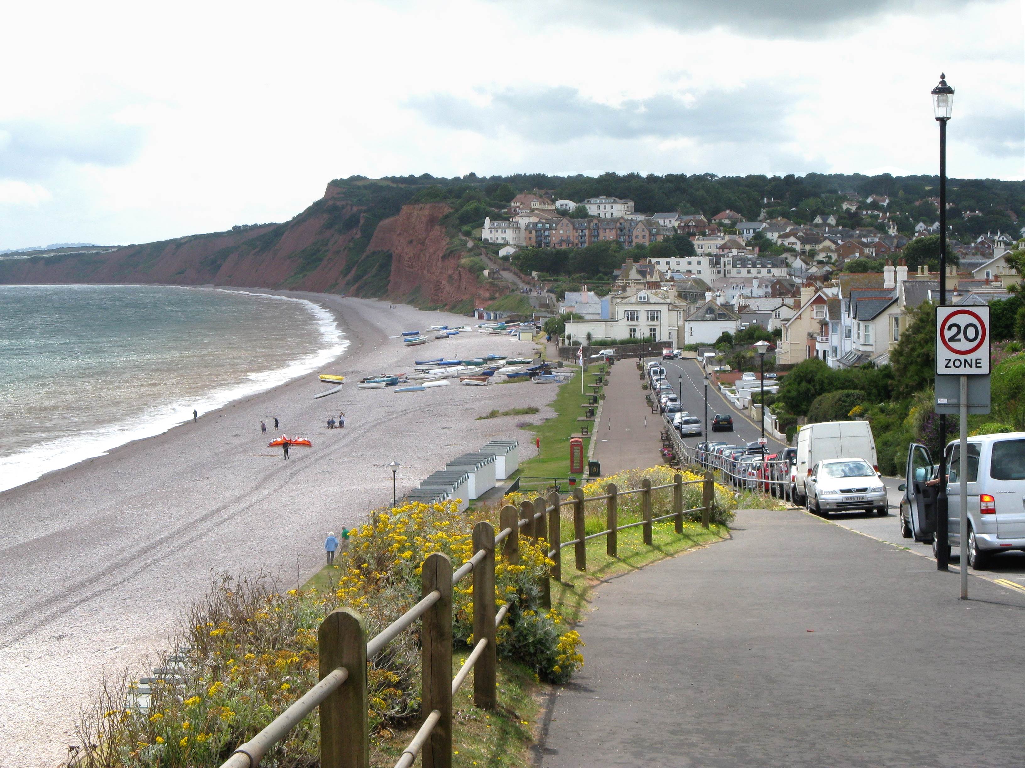 The sea front at Budleigh Salterton, South Devon, England, looking west. The red cliffs visible are of Triassic age (200-250 million years old) formed when the area was a desert. This coastline (starting at nearby Exmouth in Devon, and extending 95 miles (155km) to Swanage in Dorset) is the Dorset and East Devon World Heritage Site. The Heritage Site is also called the Jurassic Coast, although Triassic, Jurassic and Cretaceous periods are represented. The orange object on the beach is a deflated kitesurfing kite. Photographed by Adrian Pingstone in July 2009 (on a chilly Monday before the school holidays hence so few people) and placed in the public domain.